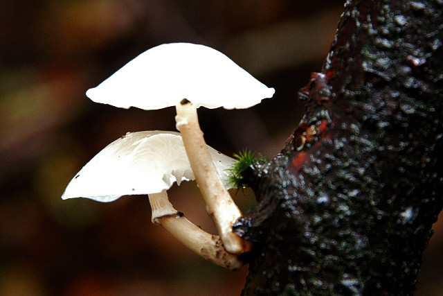 Oudemansiella mucida from Commanster, Belgium. The determination of the species shown in this picture has been verified.